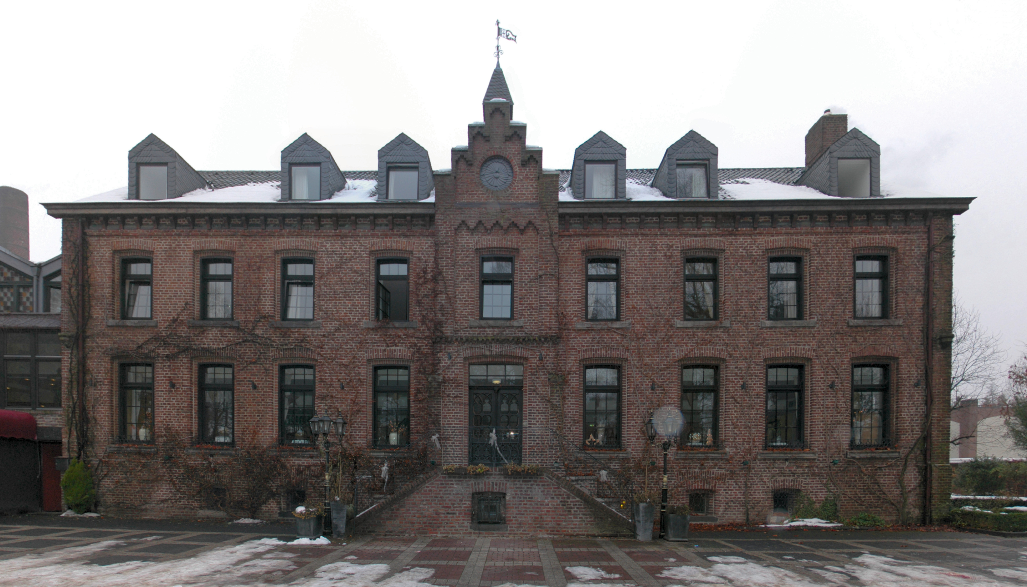 Panoramic photo of the manor house of Wegberg Castle This image was created with Hugin.